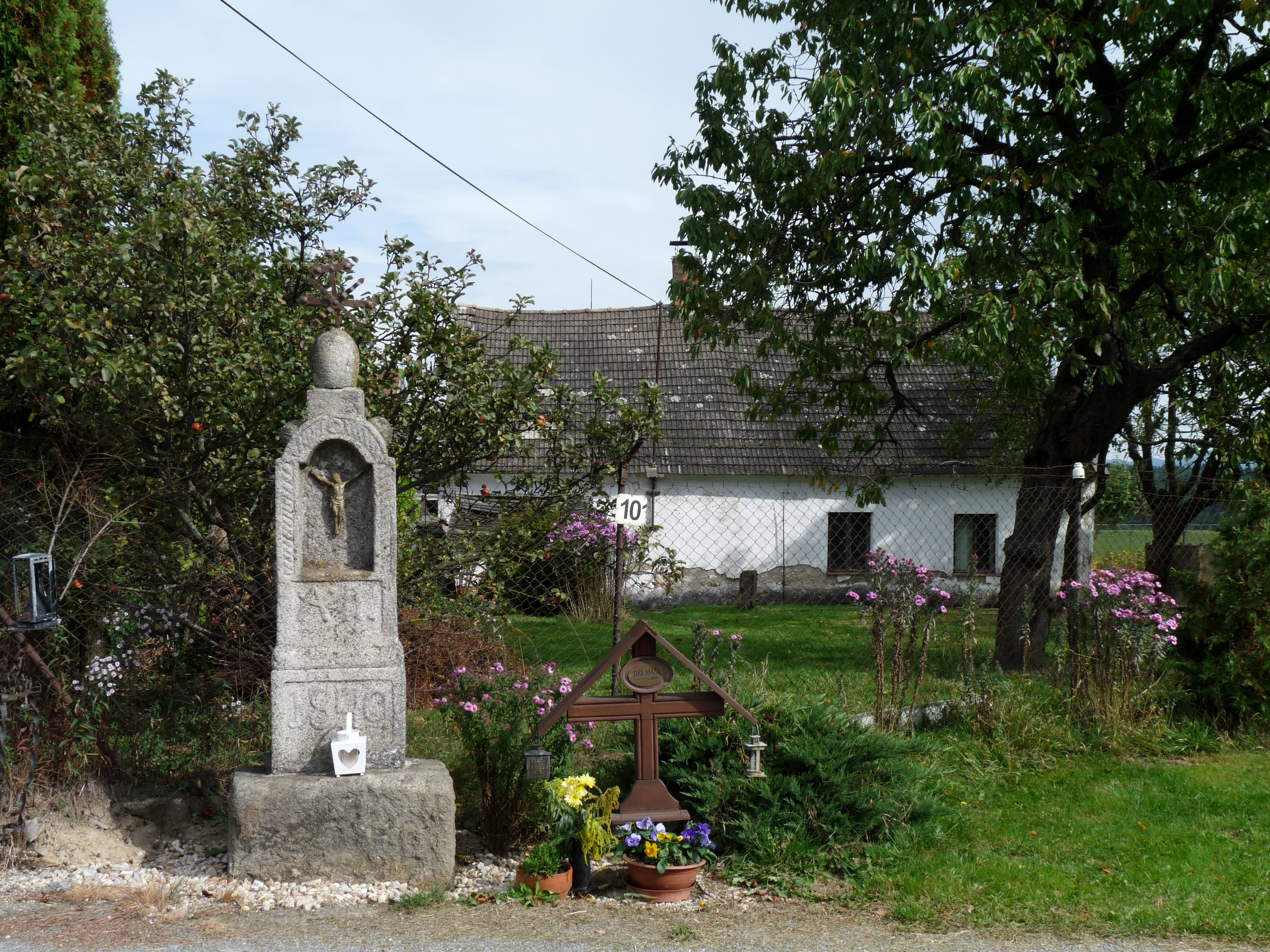 Wayside shrine at house No 10 in the village of Raveň, Český Krumlov District, South Bohemian Region, Czech Republic.